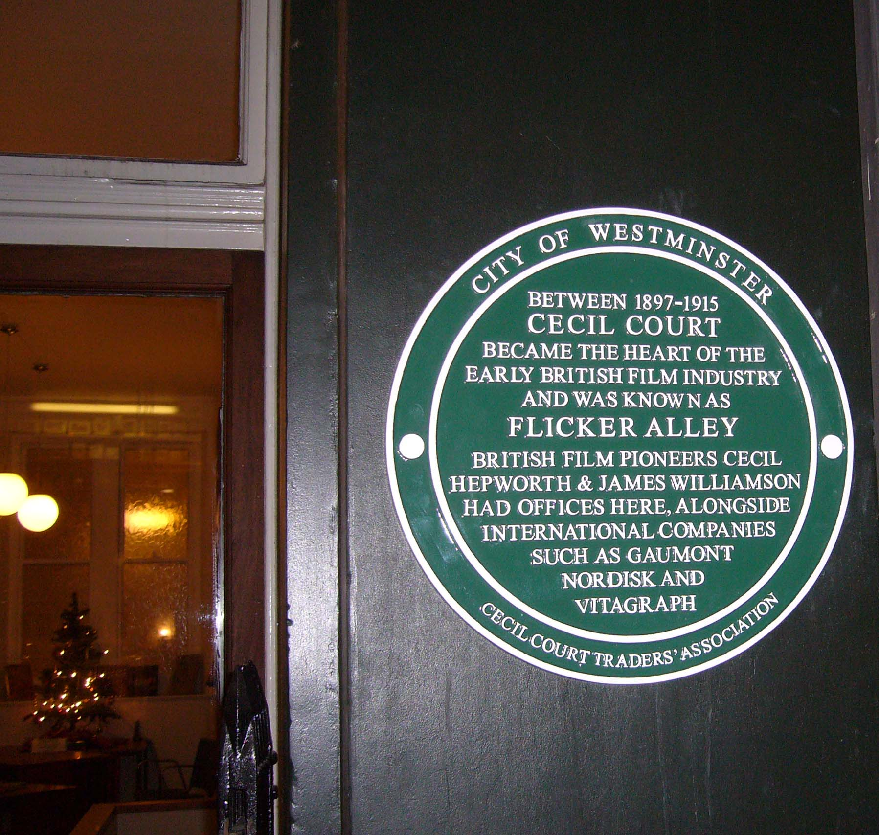 'Blue Plaque' commemorating the place of Cecil Court, London, as 'Flicker Alley' in the early British film industry. This image represents an Open Plaques entry #30596.